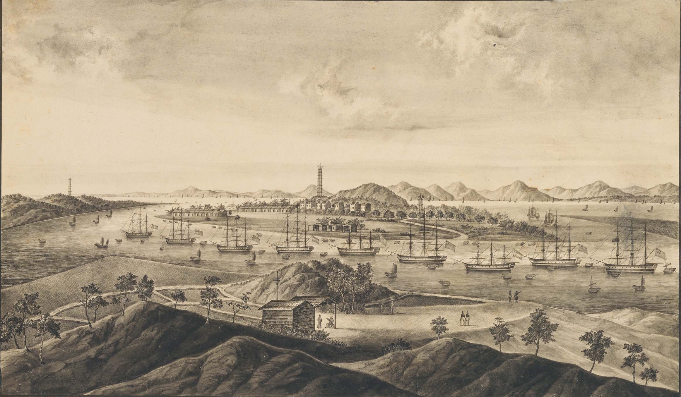 Six original drawings of buildings in and around Canton, of foreign ships at Whampoa, and of Honan. By a Chinese artist, using ink and wash, in European style. (No. 4).